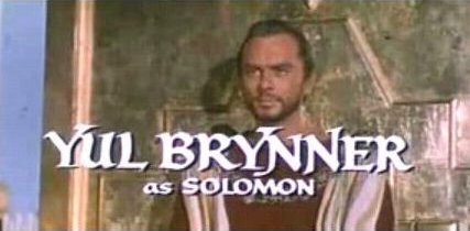 Screenshot of Yul Brynner from the Solomon and Sheba trailer